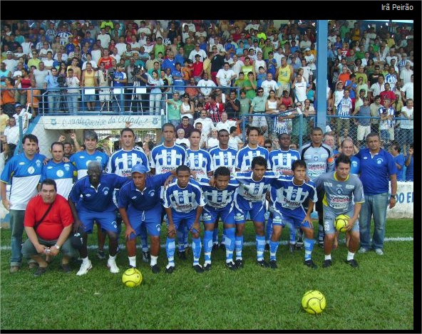 Formiga equipe de 2008